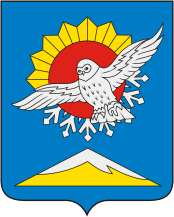 Kaierkan (Krasnoyarsk krai), coat of arms